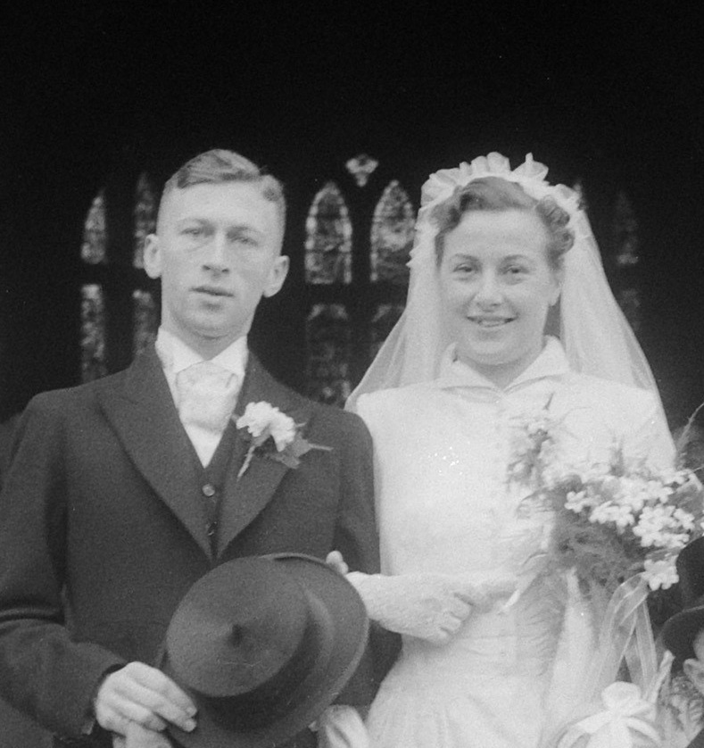 Huwelijk zwemster Lies Bonnier met Chris Burg in Den Bosch